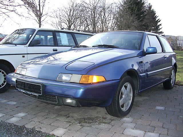 1991 Volvo 480turbo "Paris-Edition"